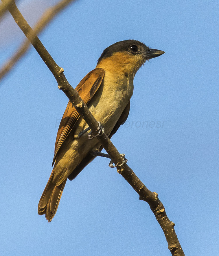 Rose-throated Becard - Carara - Costa Rica_MG_9203